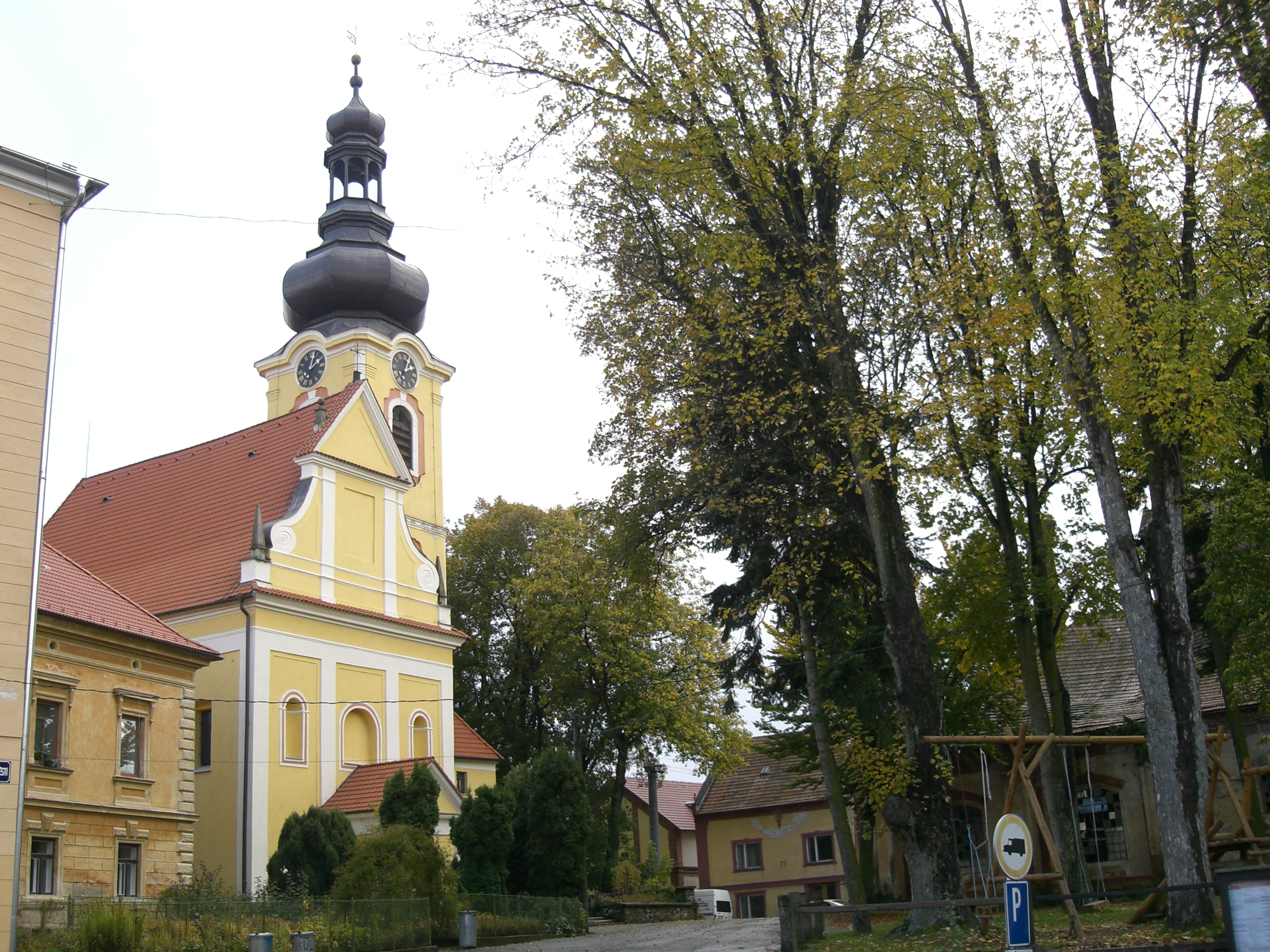 Chýnov city, Tábor District - Church of Holy Trinity, Czech Republic 49°24′24.37″N 14°48′40.38″E / 49.4067694°N 14.8112167°E